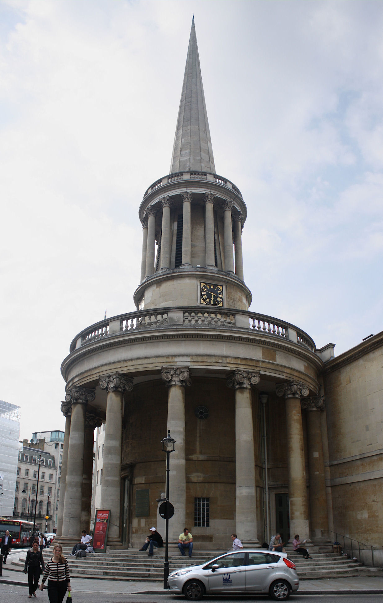 The church was completed in December 1823 to a design by John Nash.